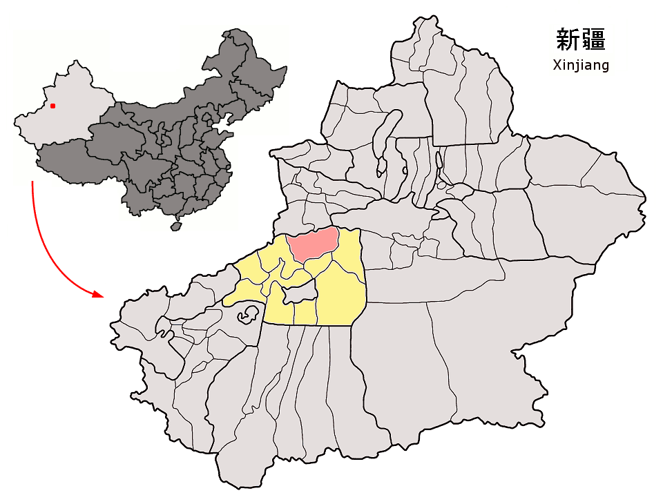 Location of Baicheng County (pink) and Aksu Prefecture (yellow) within Xinjiang autonomous region of China Map drawn in september 2007 using various sources, mainly : Xinjiang Uygur autonomous region administrative regions GIS data: 1:1M, County level, 1990 Xinjiang Counties map from